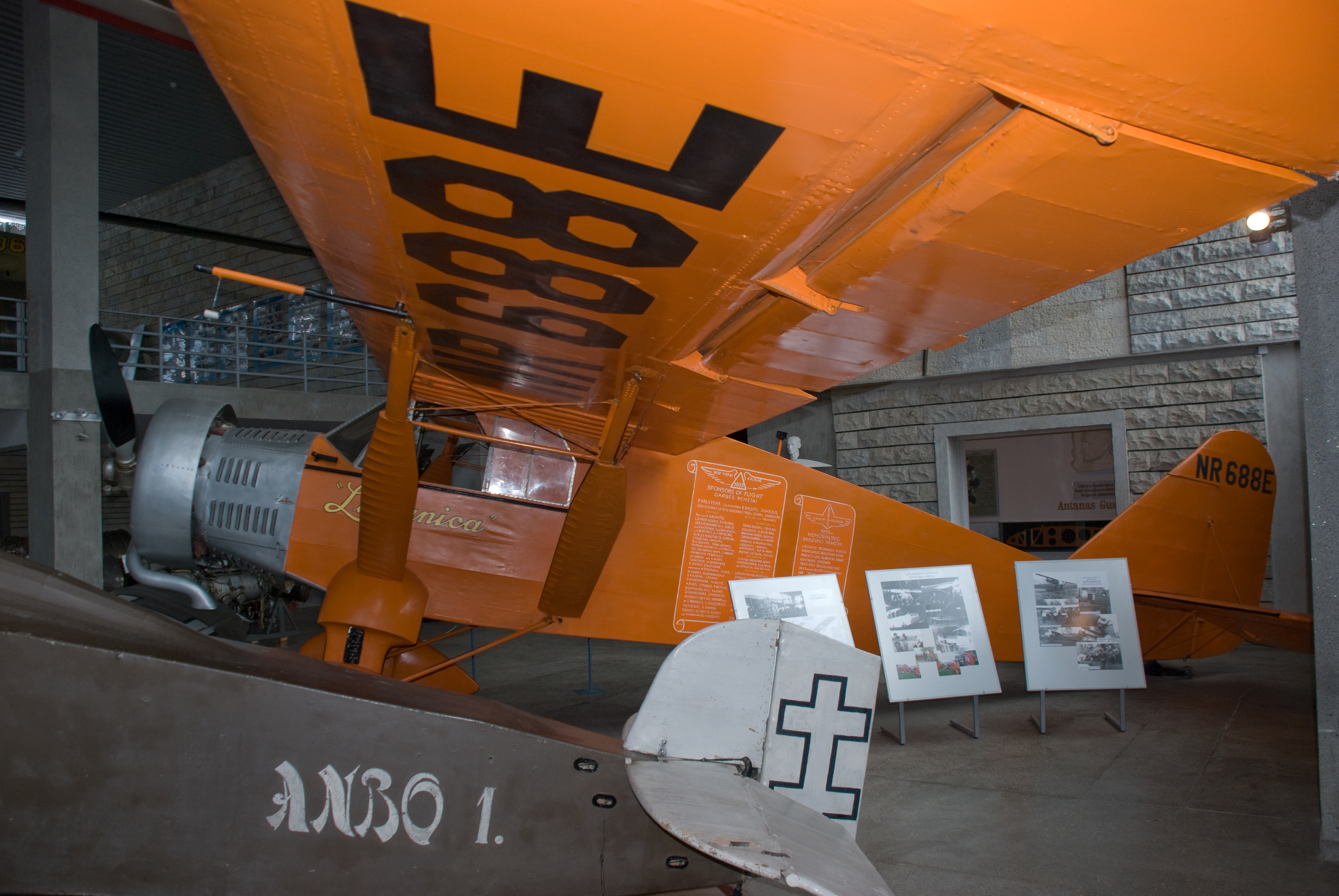 Lithuania Aviation Museum, Kaunas, Sept. 2008